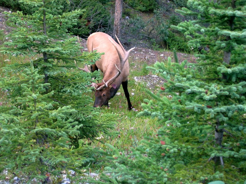 Deer in Banff National Park, Canada